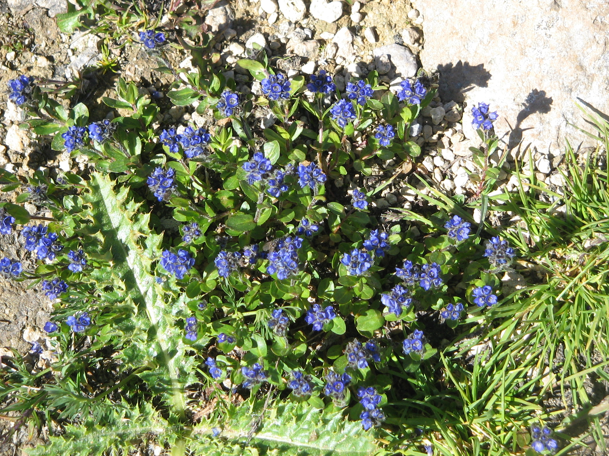 Veronica alpina